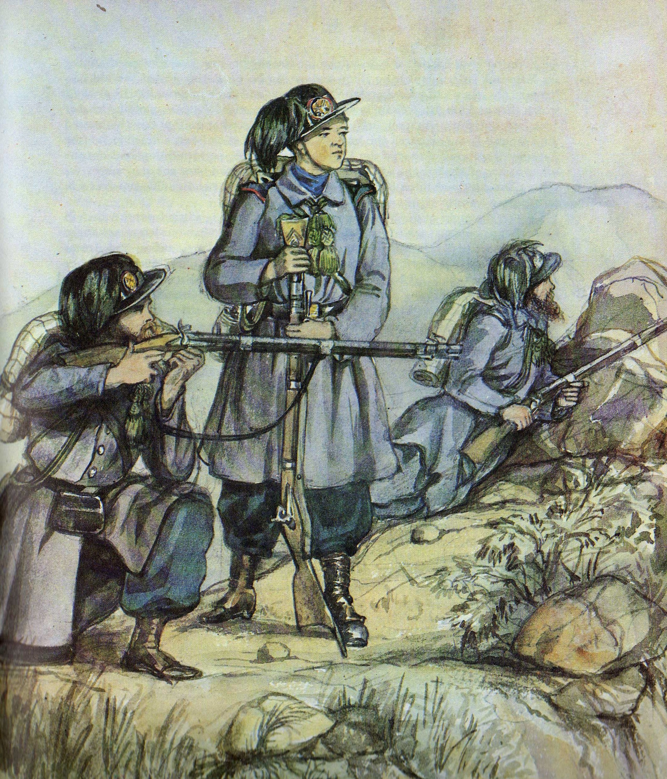 Bersaglieri troops in Crimea